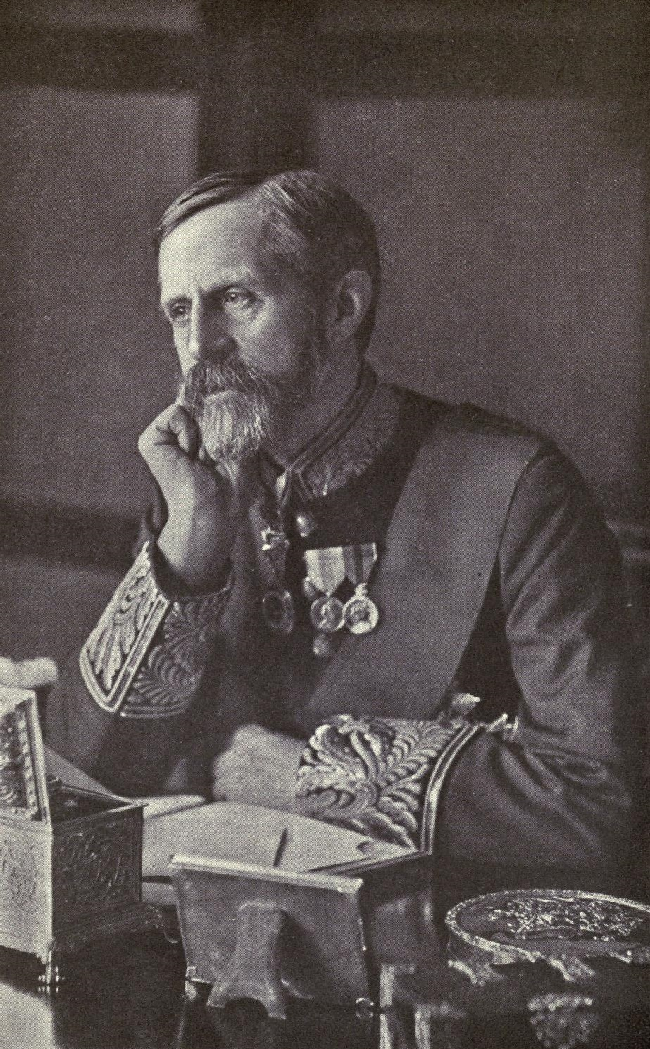 John Hamilton-Gordon, 1st Marquess of Aberdeen and Temair